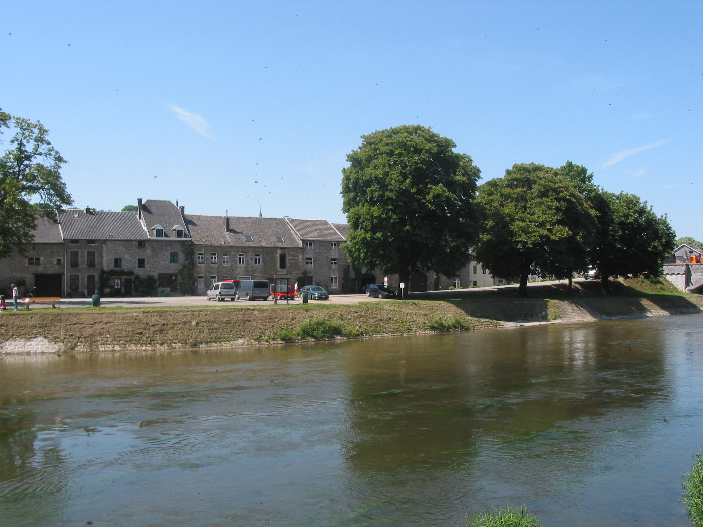 Hamoir (Belgium), the Ourthe river